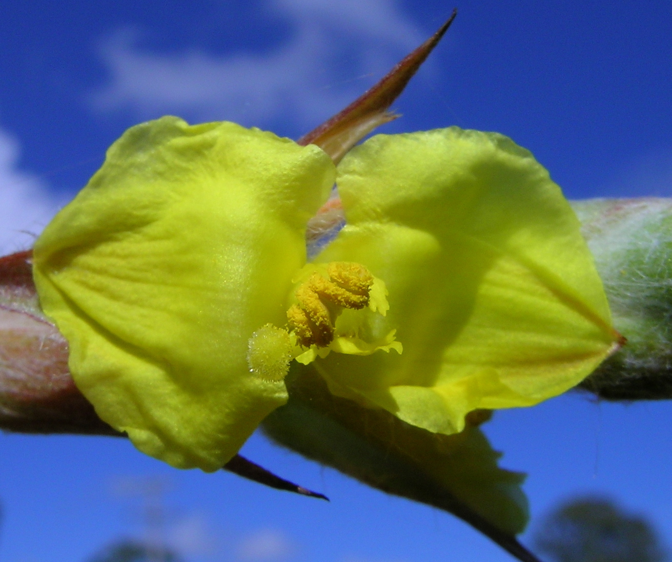 Native, warm season, perennial, erect, tufted herb to 2 m tall. Leaves are strap-like (to 60 cm long and 2 cm wide), laterally flattened, soft and hairy. Flowerheads are spikes to 1 m long. Flowers are each subtended by a bract, which almost as long as the flower and becomes reflexed at anthesis. Perianth is yellow, with an outer hairy surface; outer whorl c. 12–15 mm long and 10 mm wide; inner whorl c. 8 mm long and 2 mm wide. Stamens 1. Flowering is from spring to autumn. Widespread on the edges of dams, streams and swamps; in permanently water logged soils and water to about 60 cm deep; mostly coastal. Seeds are buoyant and spread by water. A low to moderate quality feed that is eaten by stock, but not highly sought after. Unconfirmed reports that it may cause poisoning under some circumstances. Fruits and tubers are eaten by waterbirds.